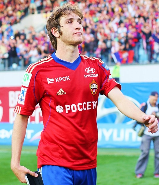 Mário Figueira Fernandes 2014